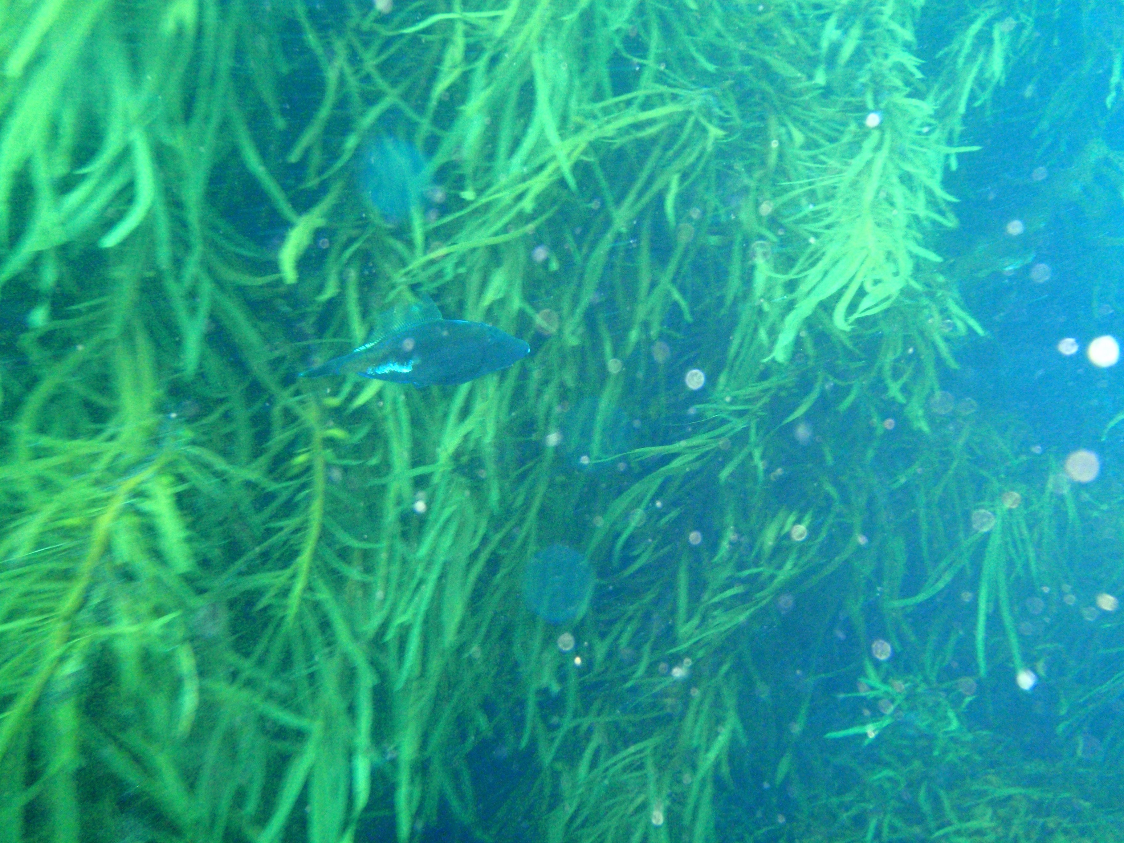 Toothbrush leatherjacket Acanthaluteres vittiger at Trap Reef, Bichino, Tasmania